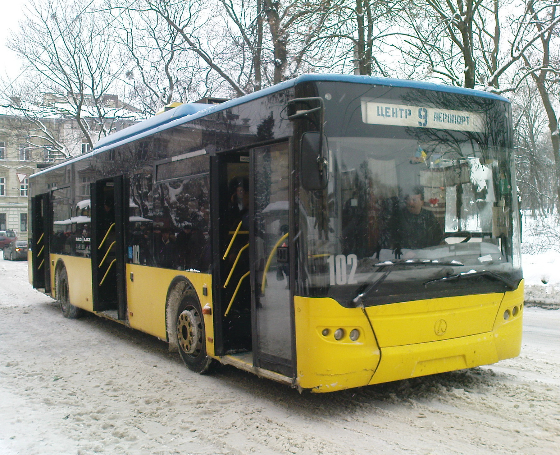 A good pic of LAZ E183